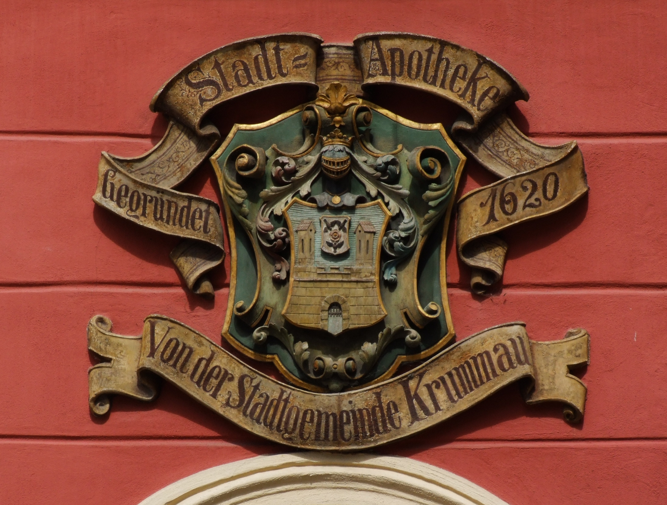 Český Krumlov (Krummau) - old sign